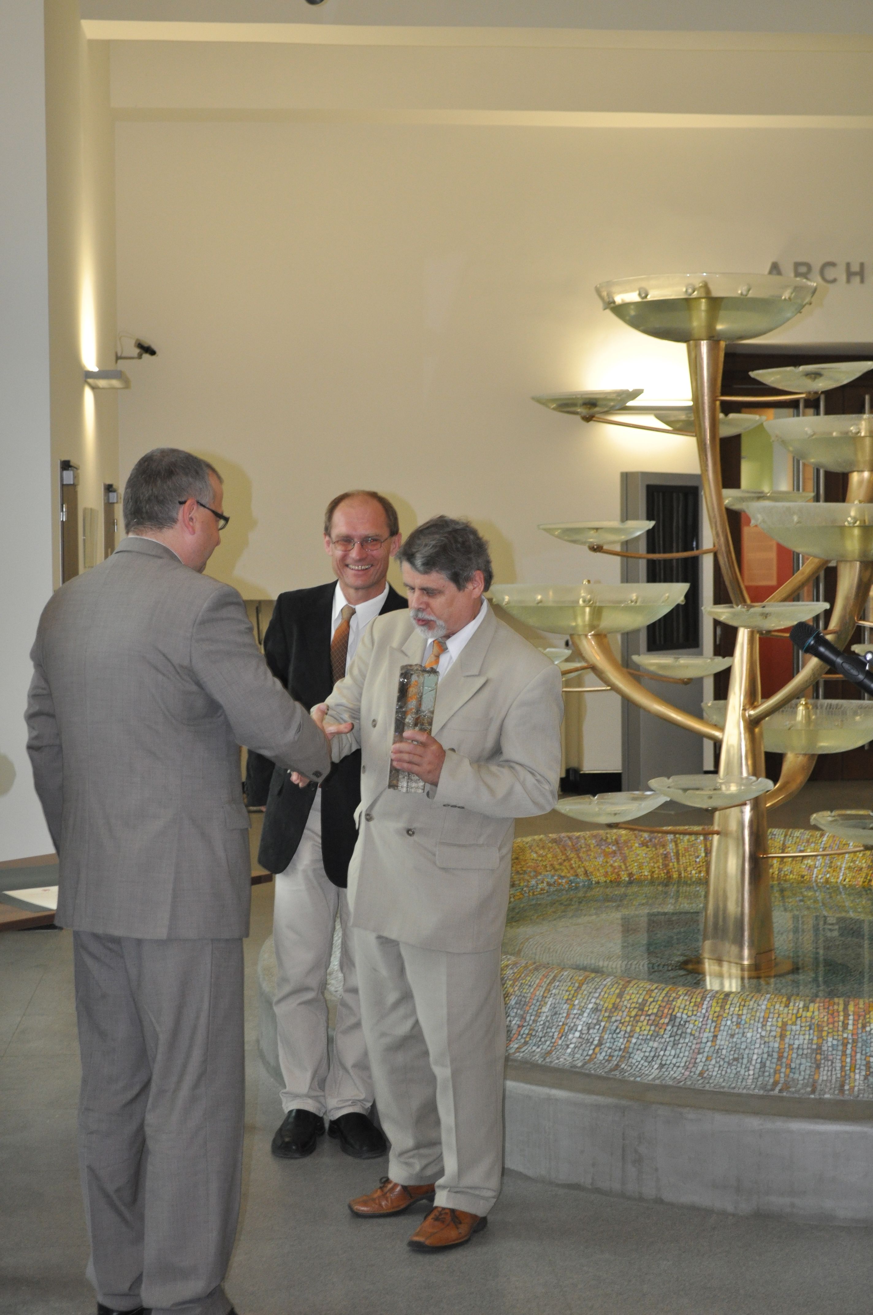 Martin Říha is getting Josef Vavroušek Prize